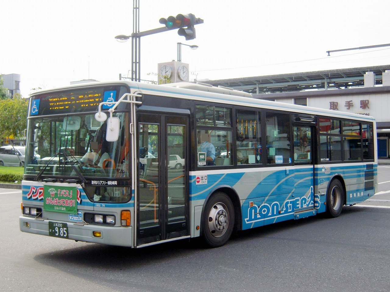 Kanto tetsudo bus(Toride) Mitsubishi Fuso Aero Star Nonstep bus(PJ-MP37JK)